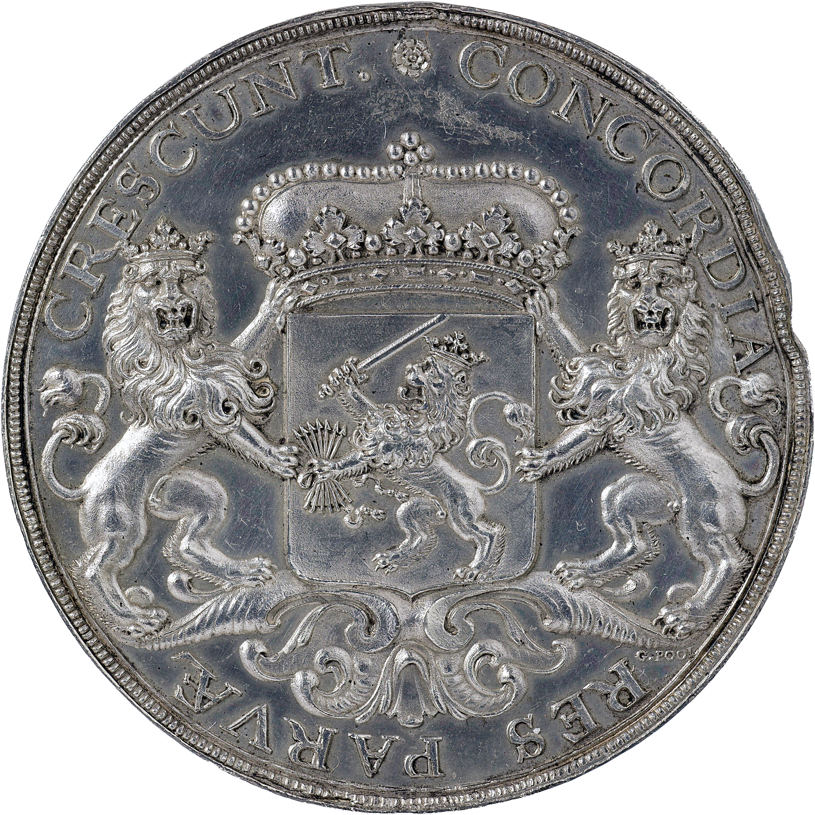 Commemorative coin for an ambassador of the Dutch Republic